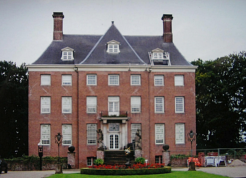 Castle Amerongen front vieuw